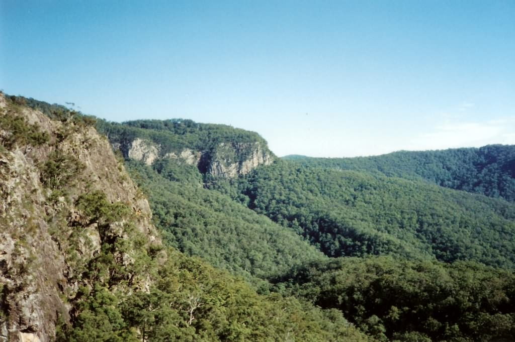 Looking south along the western side of Ships Stern